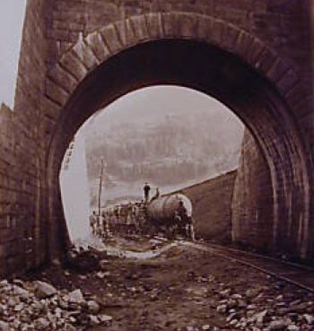 The image shows a pneumatic locomotive used during the construction of the Gotthard Rail Tunnel behind an archway or short tunnel of just a few meters. The original caption of the image translates to "Tunnel Entrance in Airolo", which probably indicates the approximate location of the shown arch, which is not the southern portal to the Gotthard Rail Tunnel itself. The shown pneumatic locomotive stored energy in the form of compressed air in the large pressure container up front. The released expanding air was used to operate the motor of the locomotive. Steam driven compressors were readily available at the time of the construction (1872-1880) and for example in use to drive pneumatic drills. Most probably these compressors were also used to load the pressure containers outside the tunnel. (The first DC motors were just being developed and the AC motor was patented by Tesla only in 1888.) In contrast to steam engines the pneumatic engines did not require additional ventilation of the tunnel during its construction. Even using pneumatic technology the tunnels were poorly ventilated adding to the poor work conditions. The original is a photograph by Adolphe Braun published in a probably small edition book "Photographische Ansichten der Gotthardbahn" (58 photographs (28x23 cm2) mounted on each single page plus one two-page panorama), published around 1875 or shortly thereafter. The exact date of publication is not clear. The original in the book was photographed at an angle and the resulting image was clipped to show central detail and to reestablish a rectangular frame. The resulting image is somewhat distorted with respect to the original photograph by Adolphe Braun and very much reduced in resolution. The German caption of the photo in the book reads "Tunneleingang in Airolo" (literally: Tunnel entrance in Airolo).